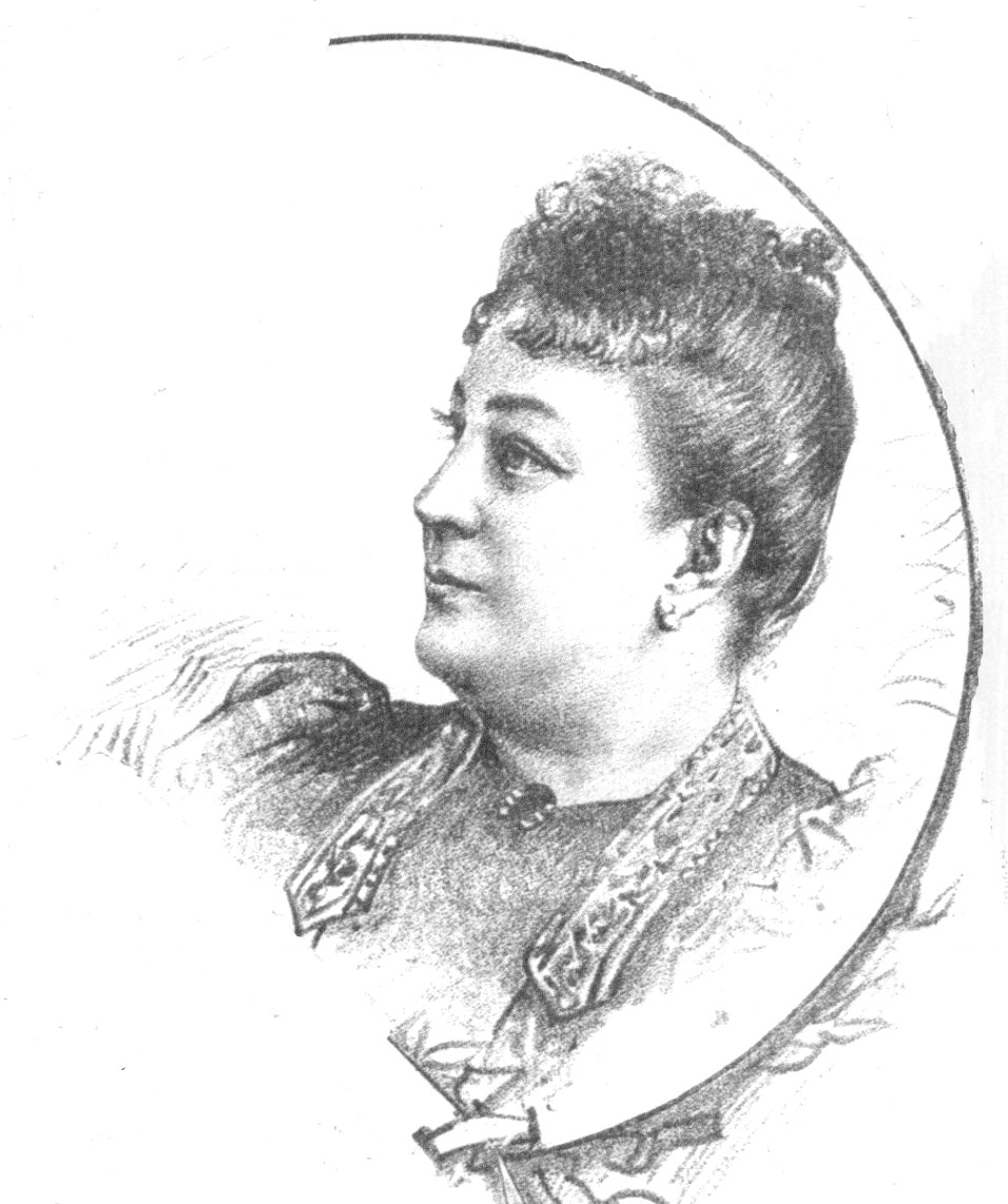 Portrait of Marie Anatour (1856-1929), Austrian actress and opera singer.